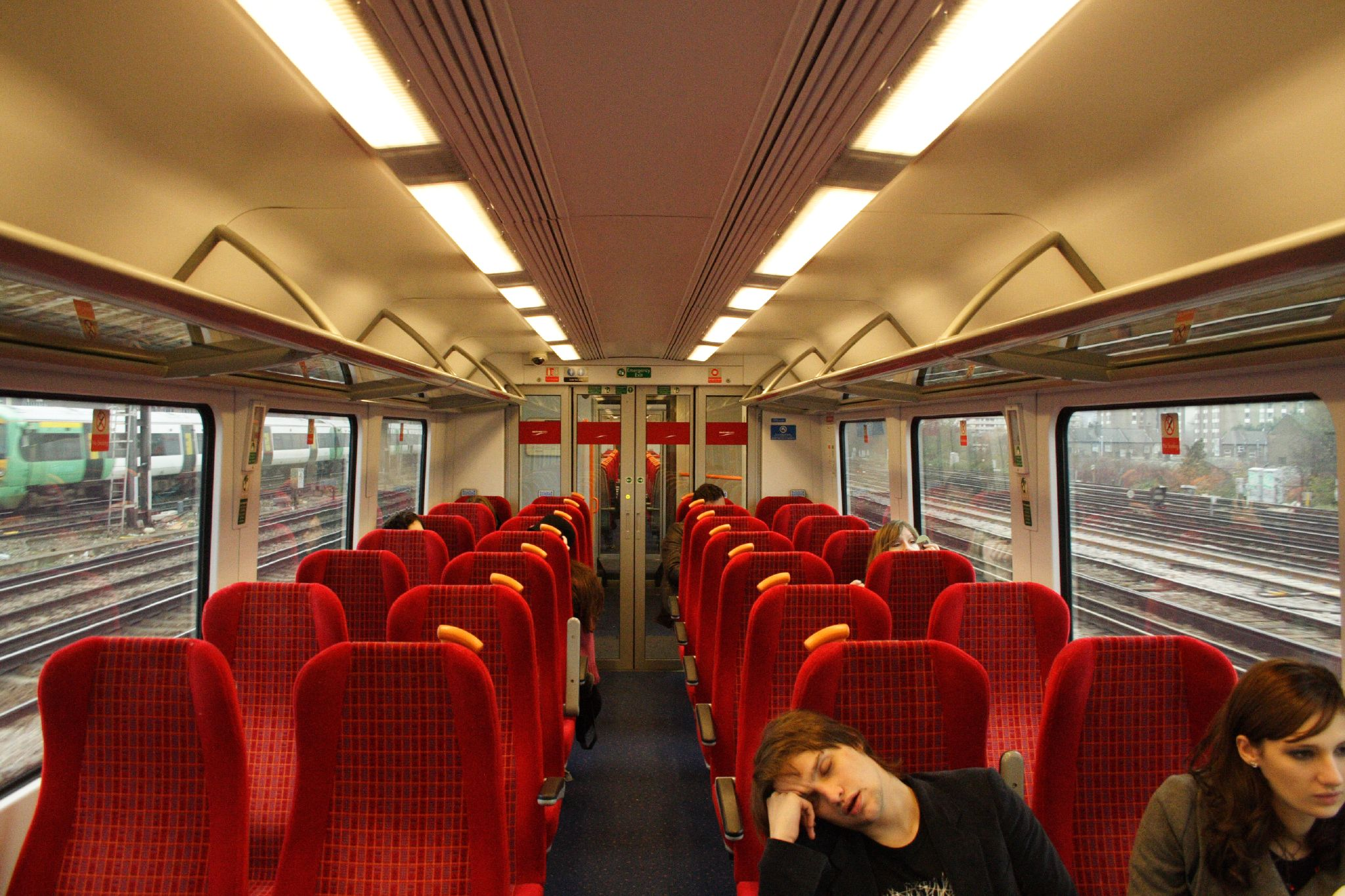 Interior of a South West Trains Class 444 Desiro